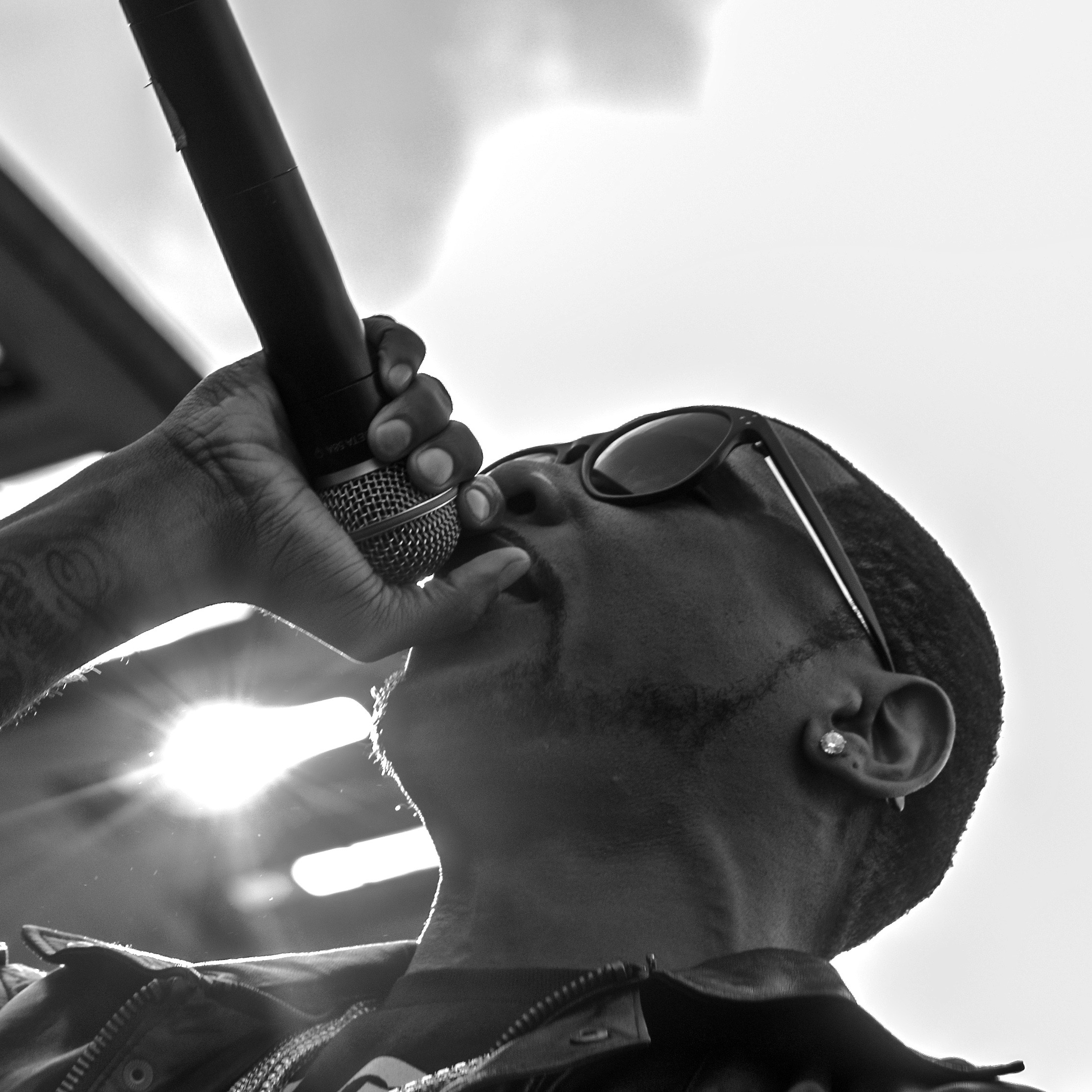 Fabulous performing at UAlbany Parkfest 2012.